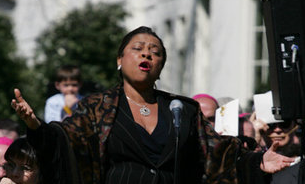 Soprano Kathleen Battle sings "The Lord's Prayer", Wednesday, April 16, 2008, during the arrival ceremony in honor of Pope Benedict XVI on the South Lawn of the White House.